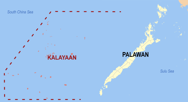 Map of Palawan showing the location of Kalayaan